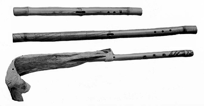 Three flutes of the Akimel O'odham culture, from Figure 80, page 166 of: Frank Russell, “The Pima Indians”, Twenty-sixth Annual Report of the Bureau of American Ethnology to the Secretary of the Smithsonian Institution, 1904-1905, United States Government Printing Office, Washington, D.C., 1908, pages 3–391. The bottom flute demonstrates the use of a "cloth or ribbon" over the center of the flute to serve as a block. Russell specifically notes that the bottom-most flute "has an old pale yellow necktie tied around the middle as an ornament and to direct the air past the diaphragm."